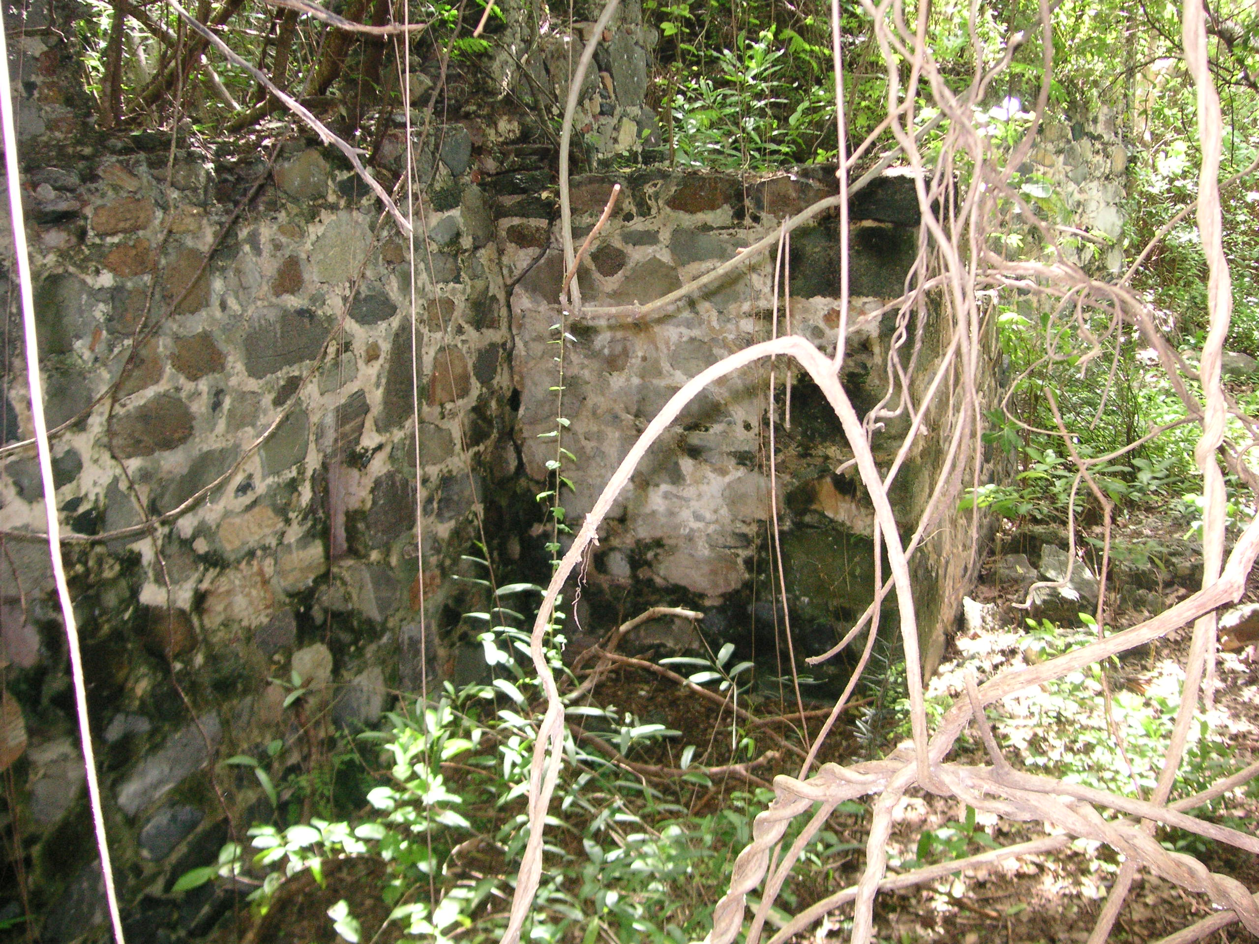 Part of Fort Purcell ("The Dungeons"), Pockwood Pond, Tortola, British Virgin Islands